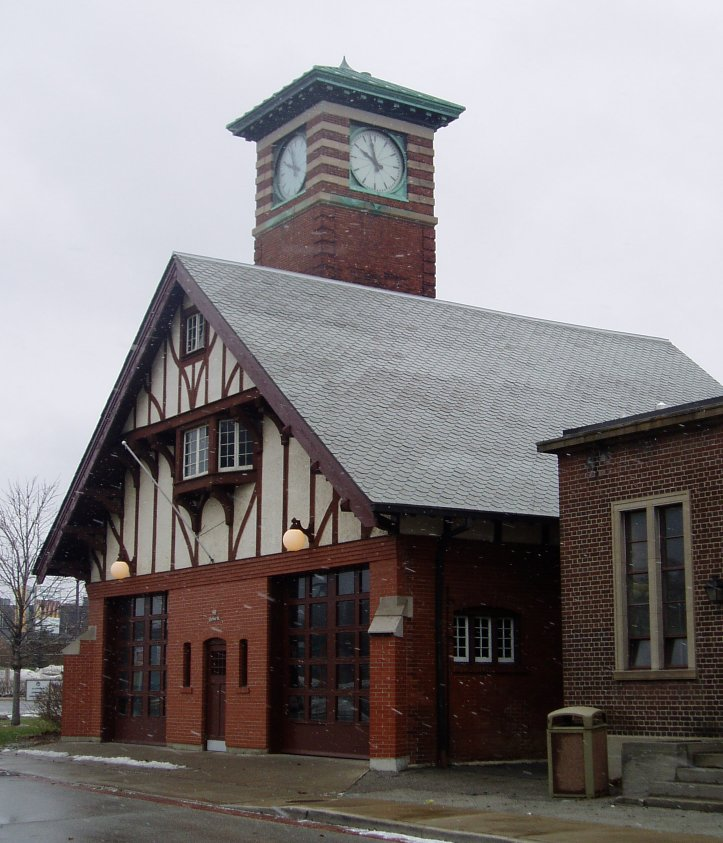 CNE Fire Hall, Toronto